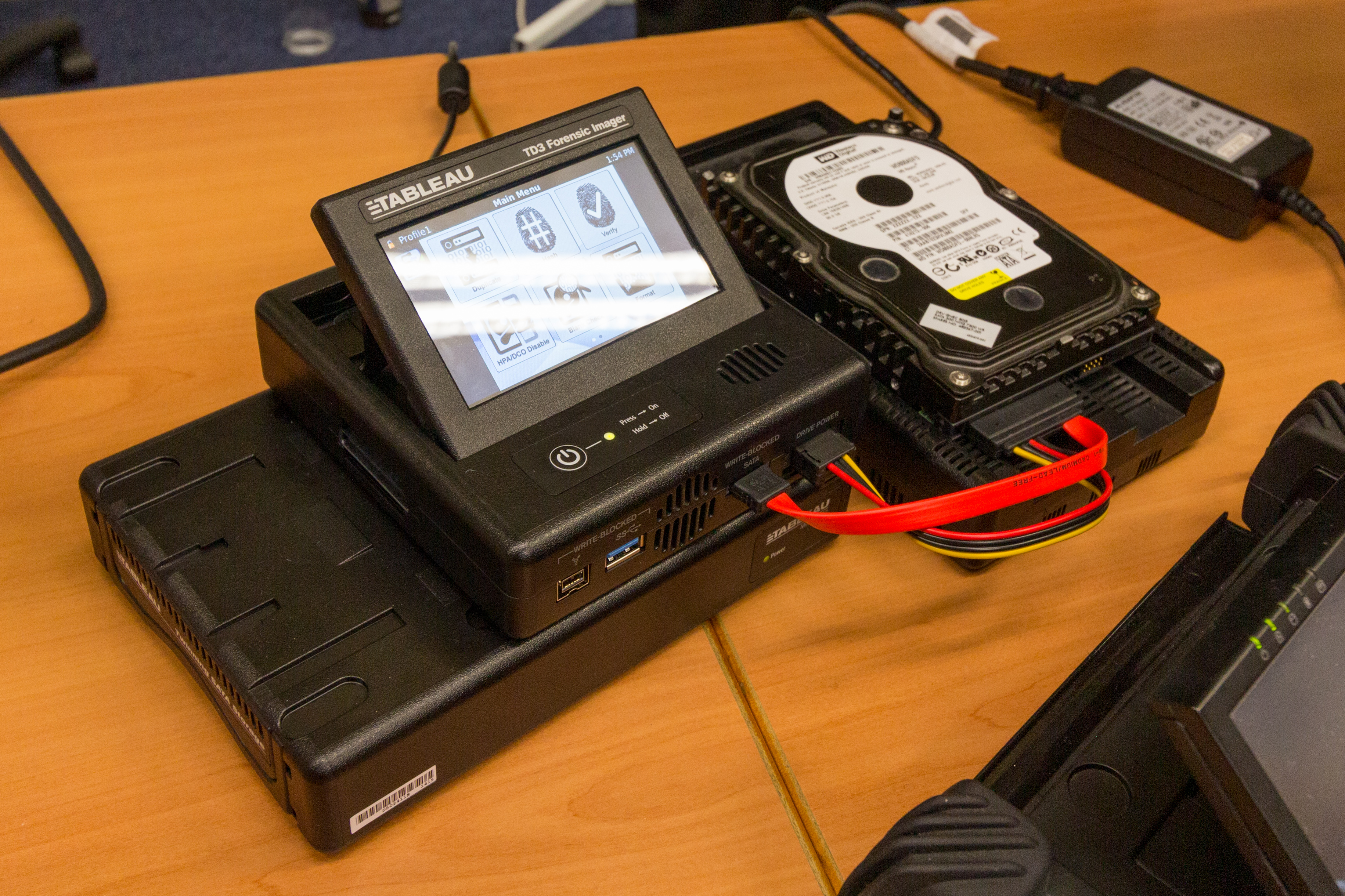 A forensic disk imager. On display at Custom House during Open House London 2015.